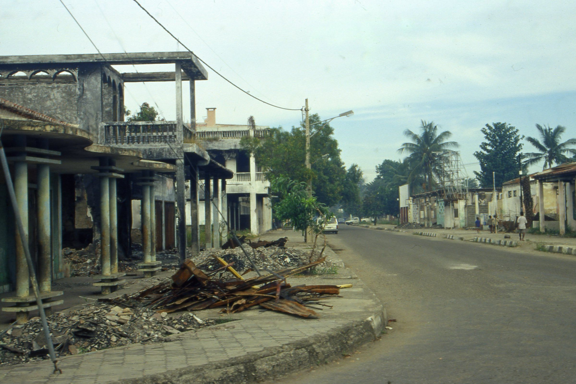 destroyed Dili